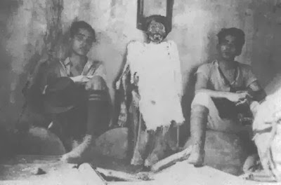 Locals with a mummy created by Gottfried Knoche